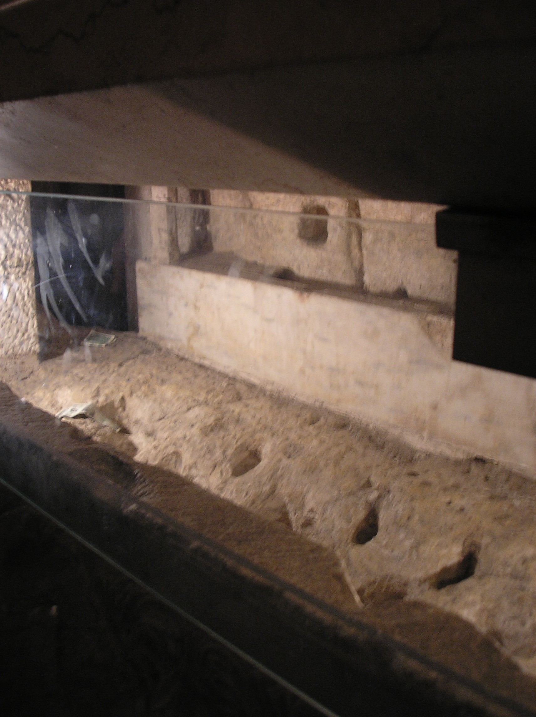 Mary's tomb - Mary's Sarcophag